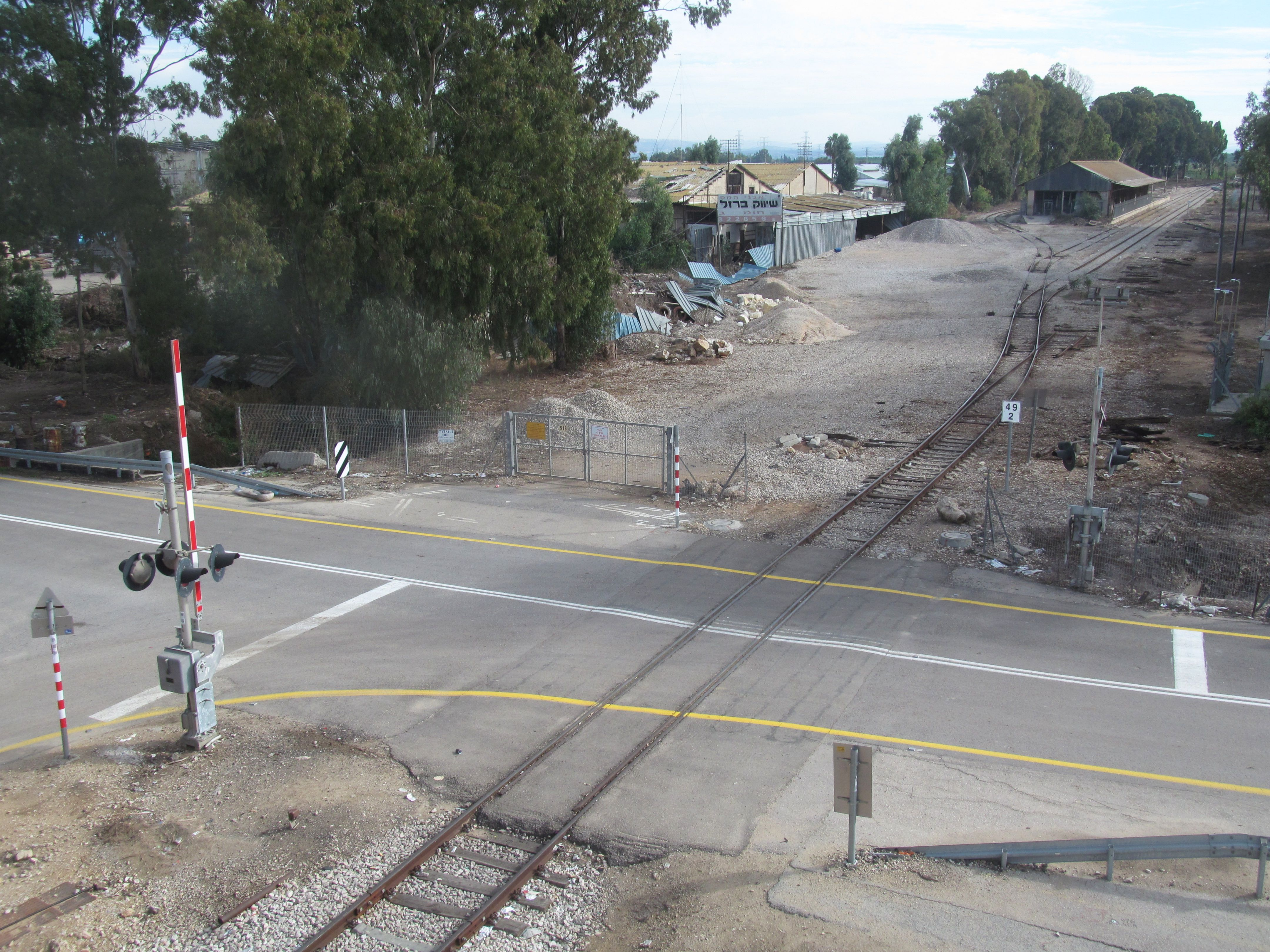 Hadera East railway station in 2017